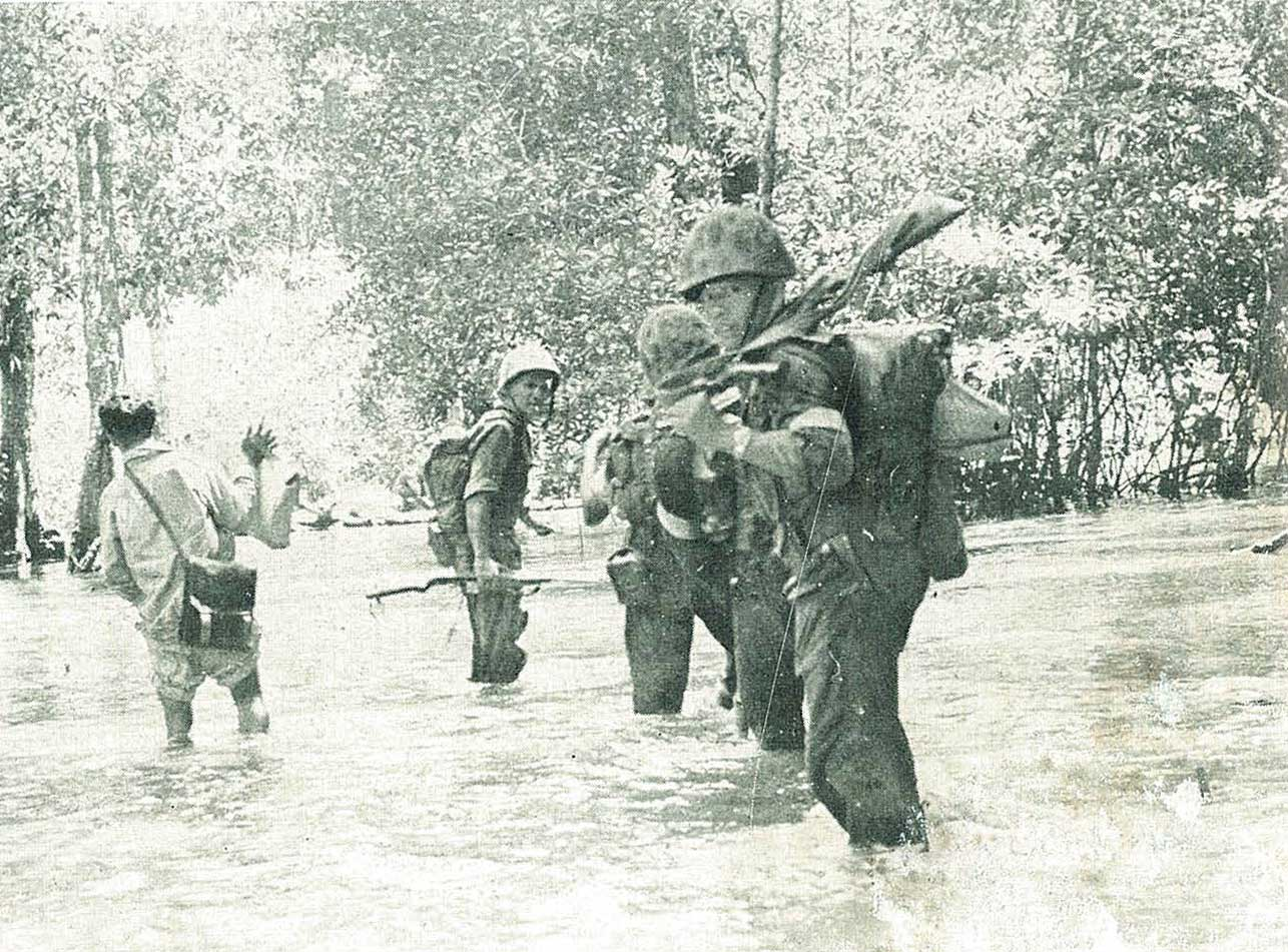 Indonesian Navy Commando Corps in swamps chasing PERMESTA troops